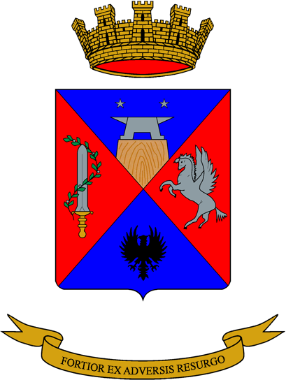 Coat of Arms of the Infantry School; Italian Army.